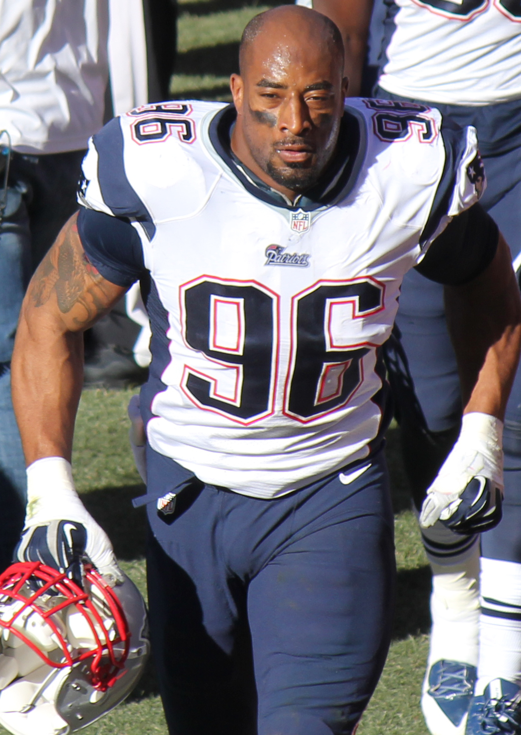 Andre Carter, a player on the National Football League.